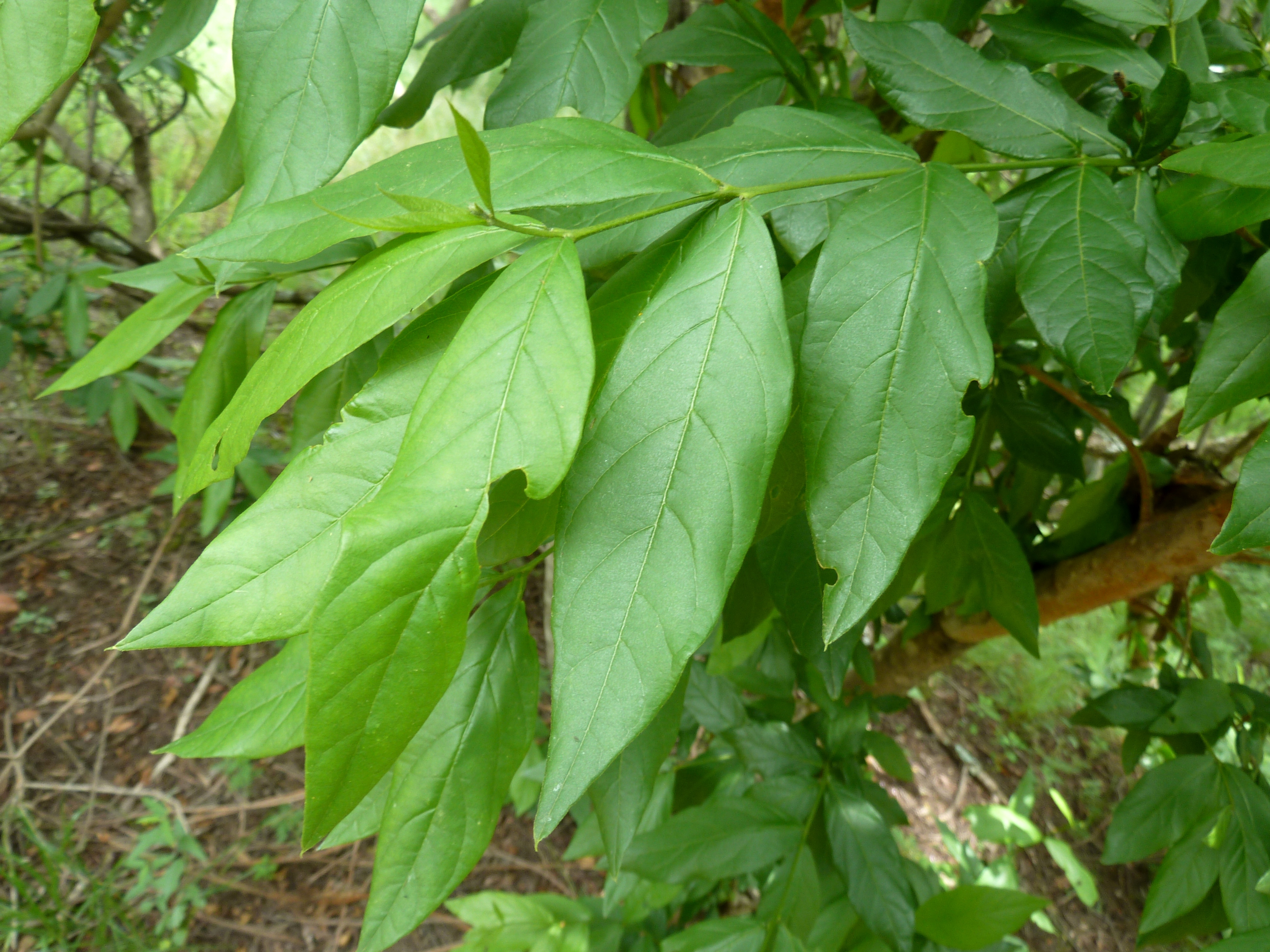 Foliage of Combretum erythrophyllum at Skeerpoort on the southern slope of the Magaliesberg, South Africa